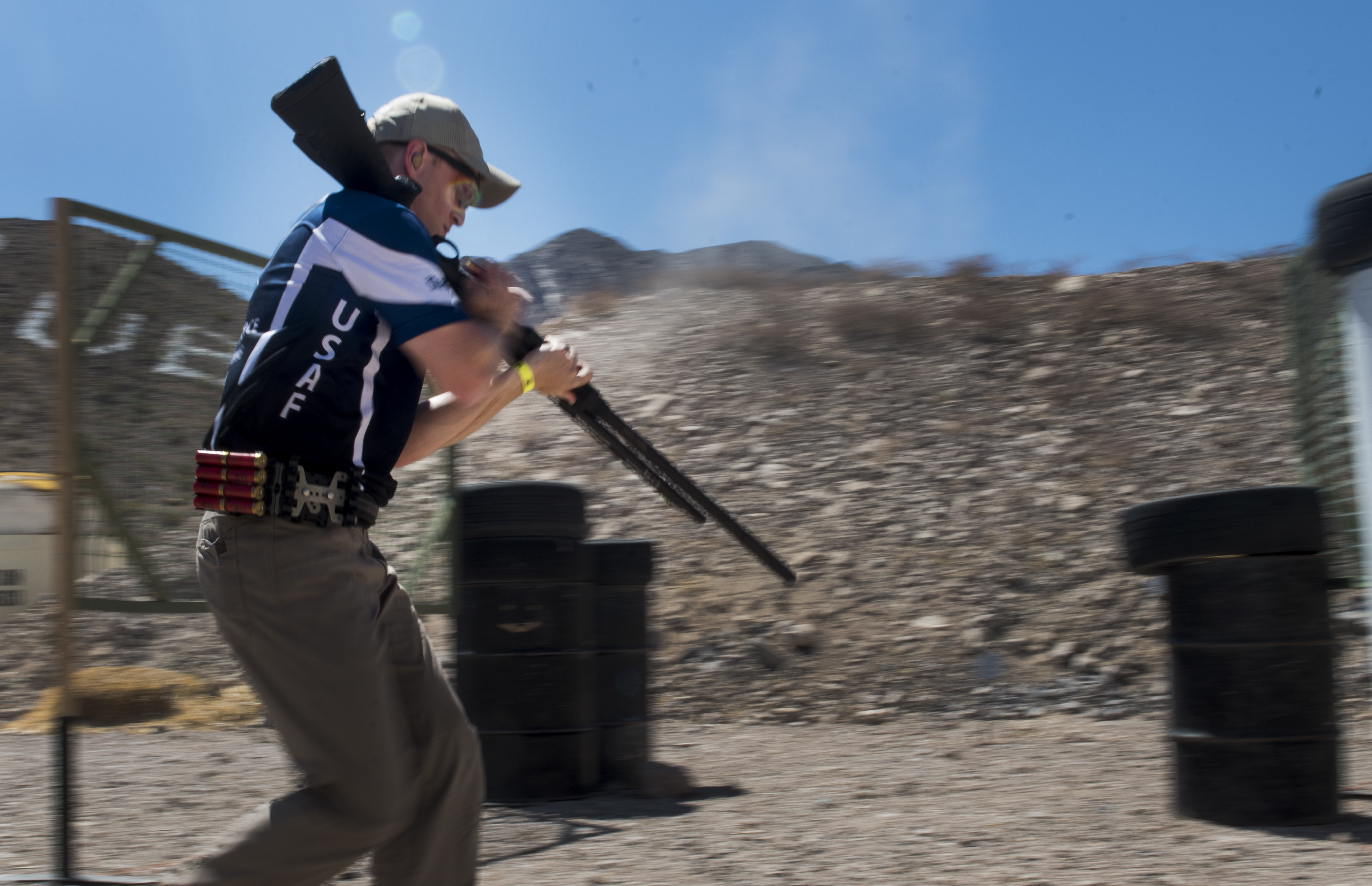 Casey Ryan reloads a shotgun during the USPSA Multigun Championship in Boulder City, Nevada, April 21, 2018.